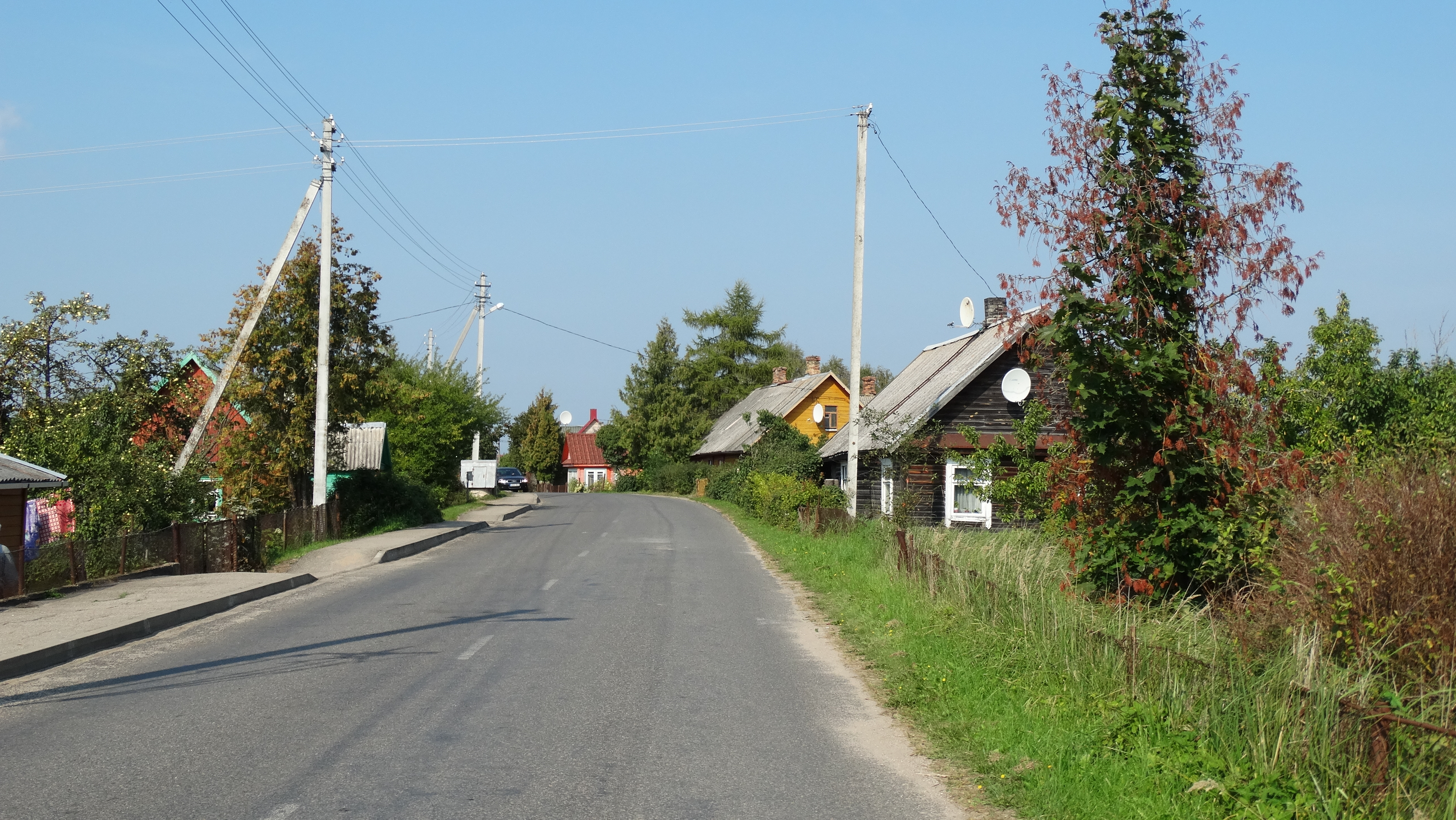 Turmantas, Zarasai district, Lithuania